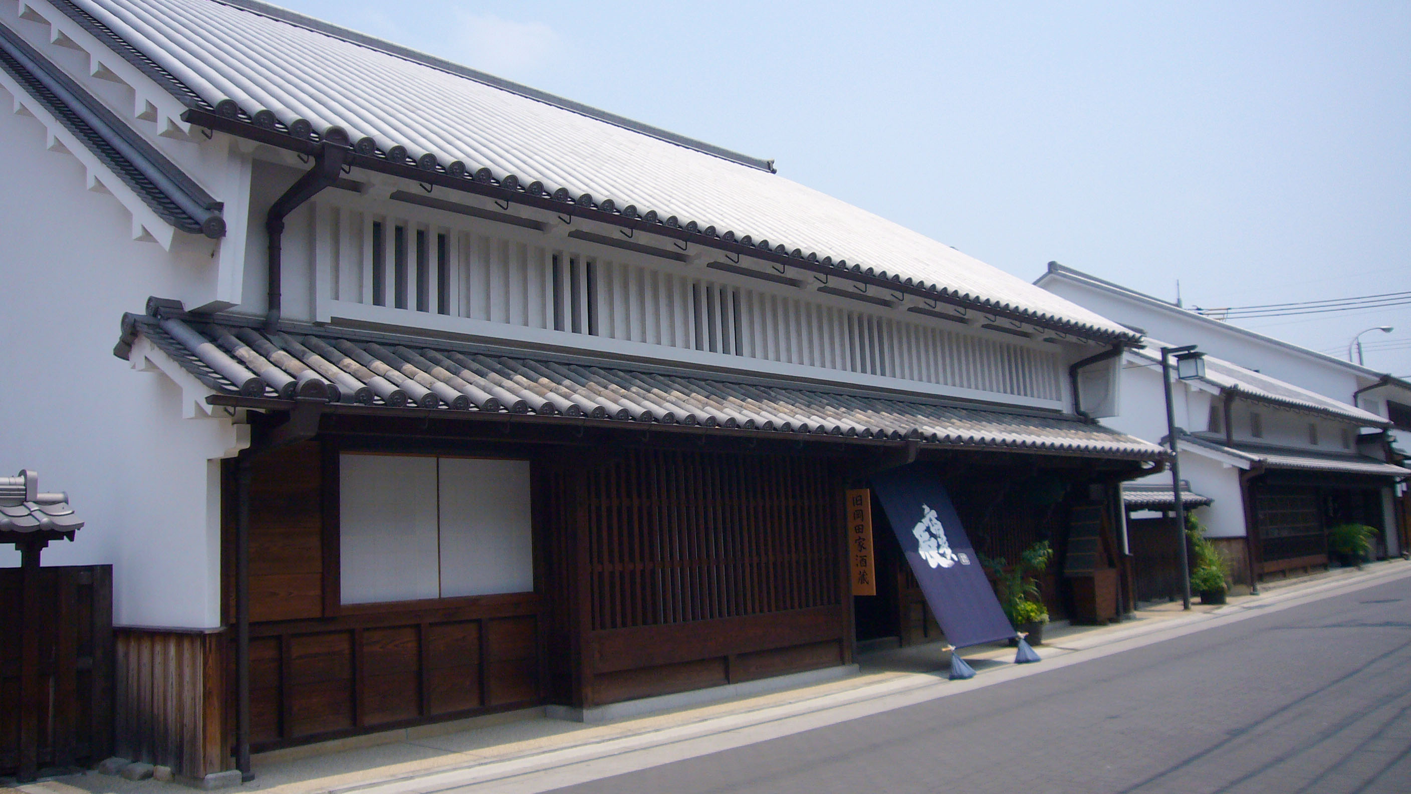 Old Okada House in Itami, Japan